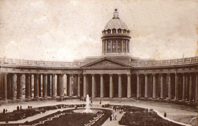 Kazan Cathedral in 1900s